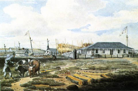 Watercolor Depicts Naval Dockyard, Point Frederick, Kingston, Ontario. To the right is the commodore's house. Two ships are under construction: the Canada and the Wolfe. (Original: Royal Military College of Canada, Kingston.)